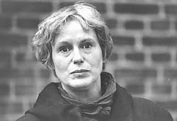 Brigitte Struzyk on October 20, 1993 in Berlin